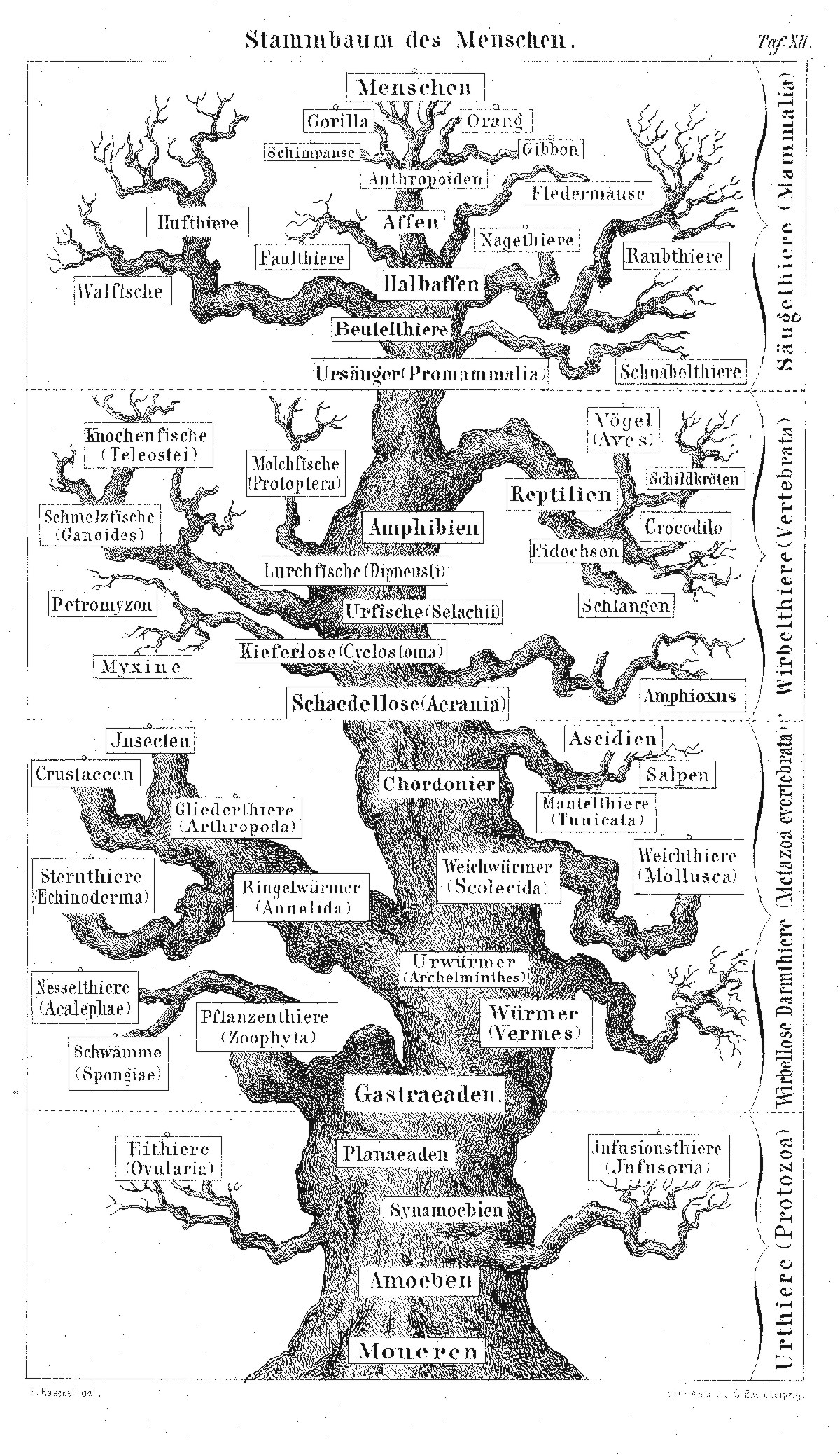 Stammbaum des Menschen (Pedigree of man), a lithography